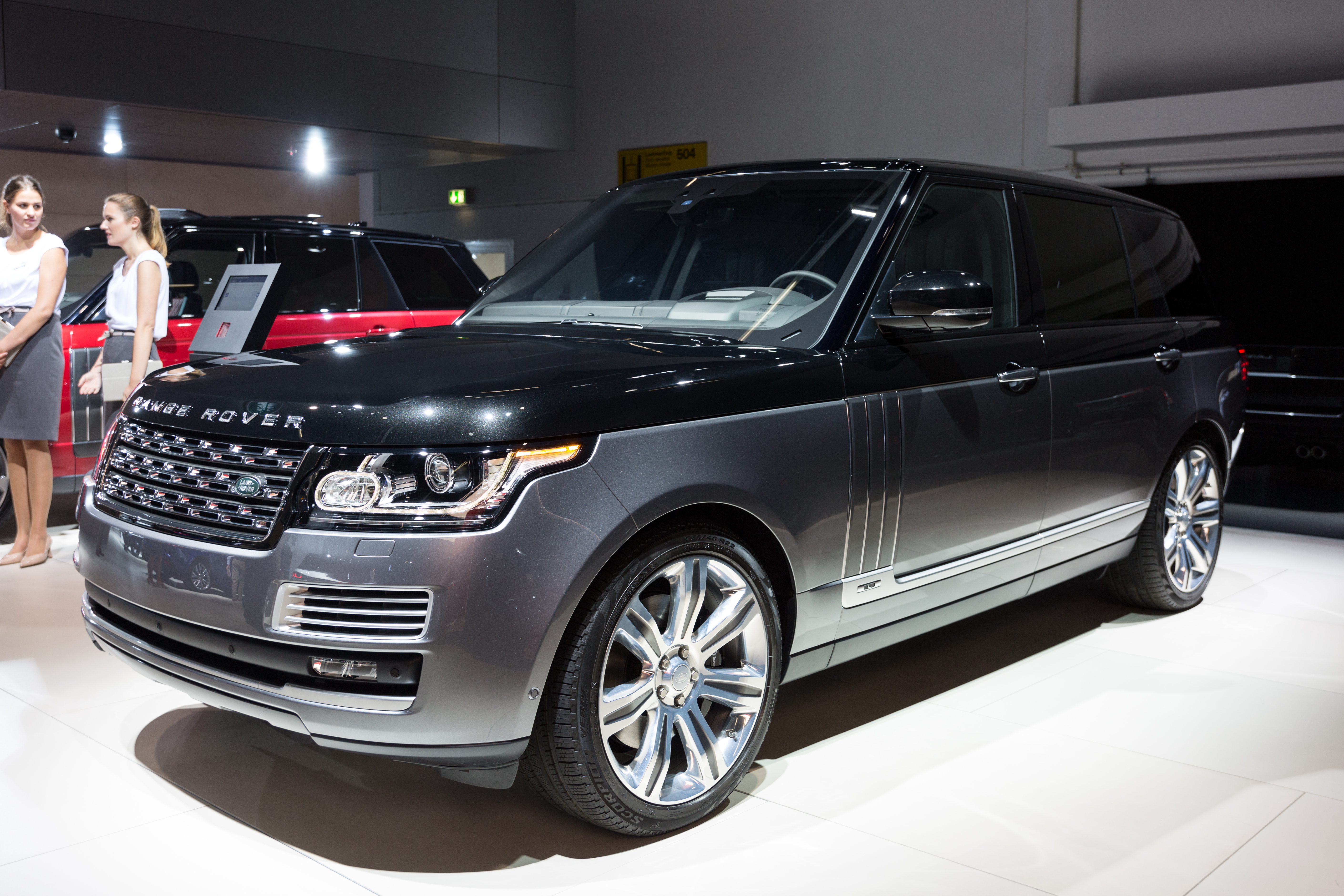 Range Rover SVAutobiography, IAA 2017